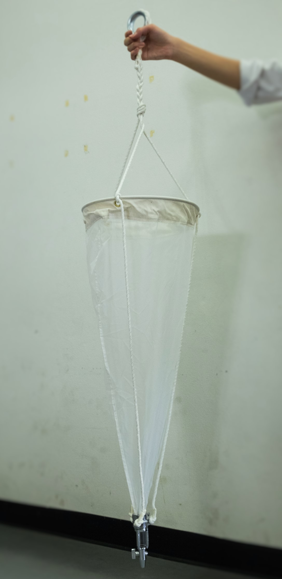 A full body of plankton net